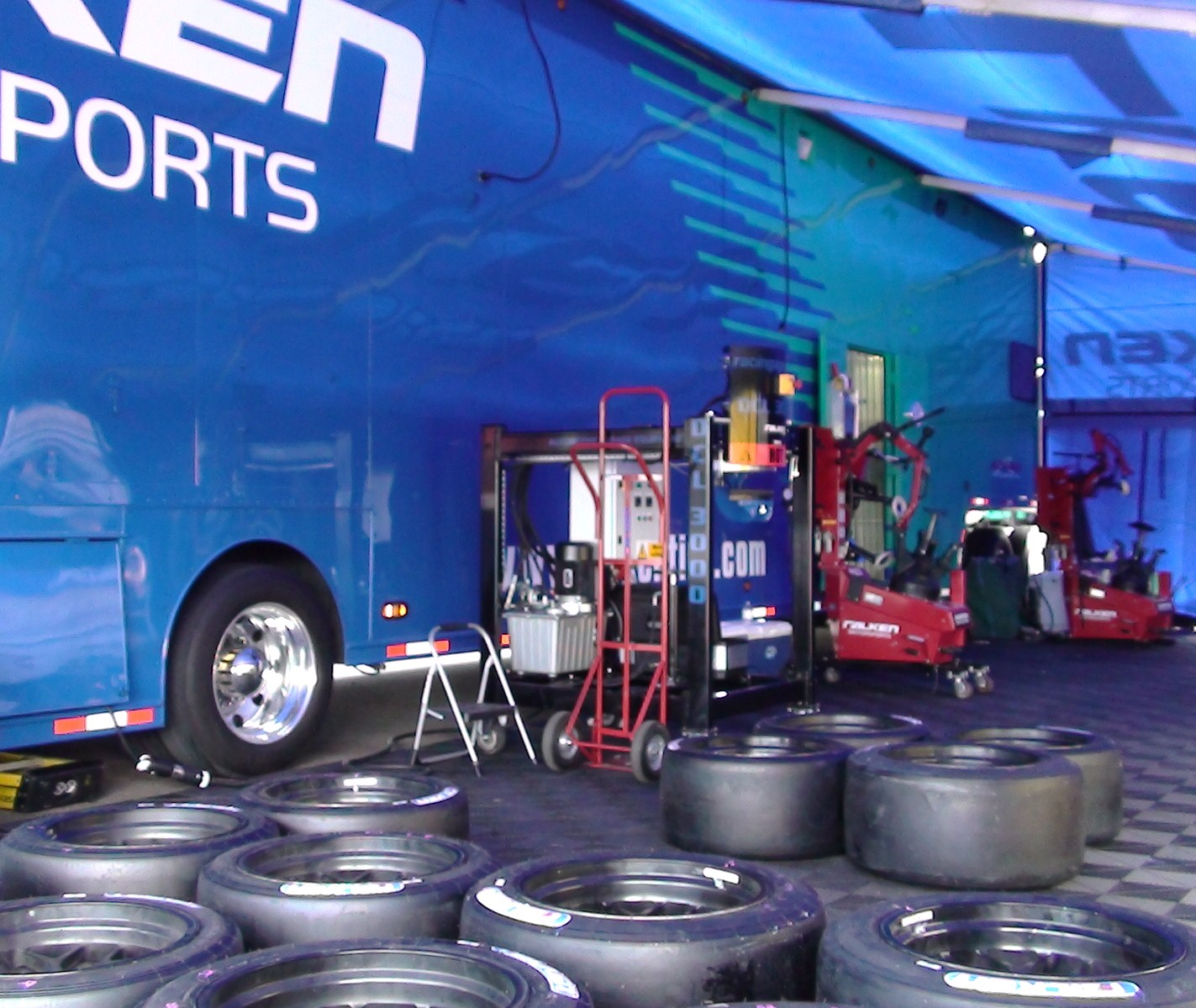 Tires